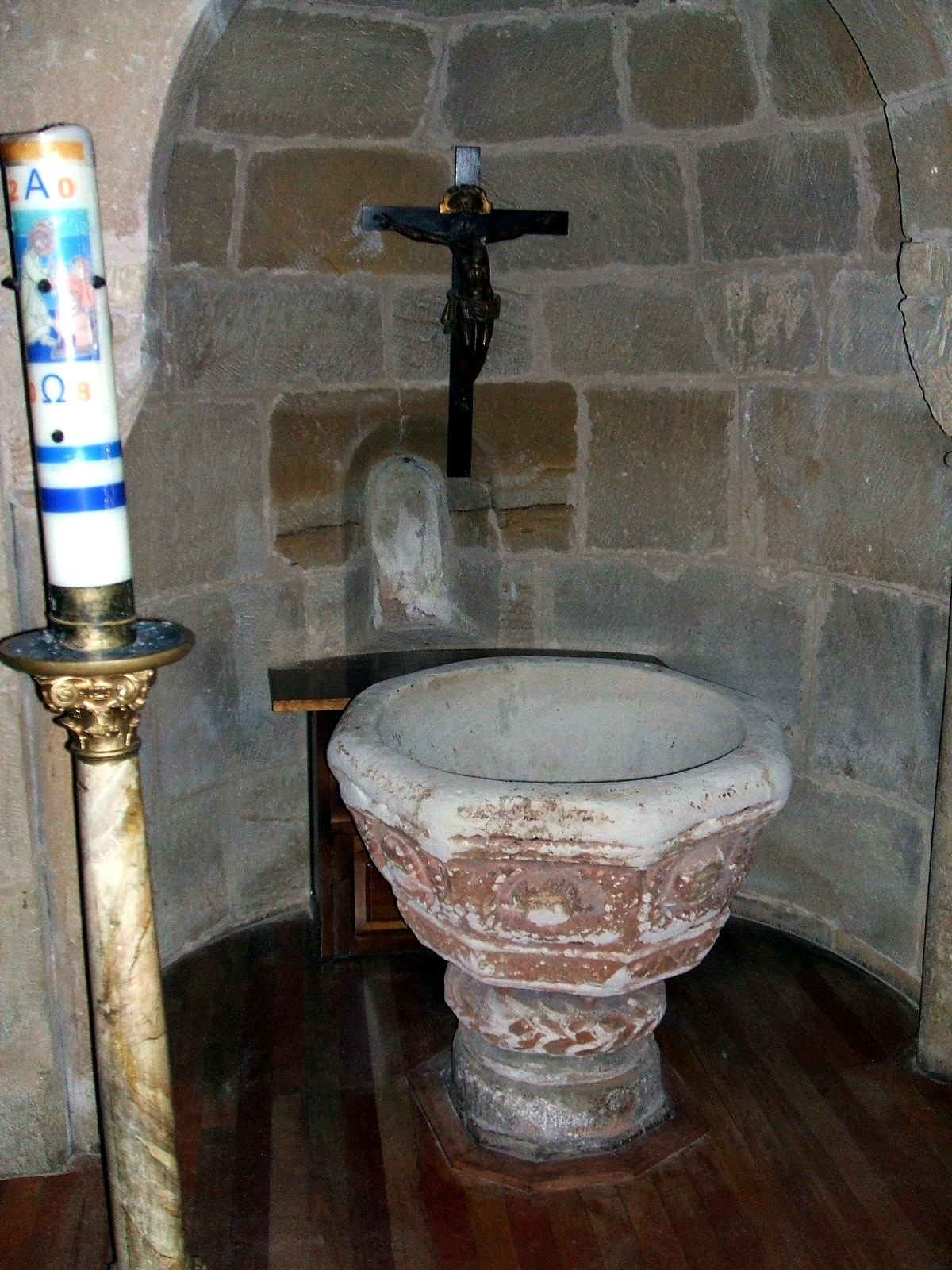 Baptisterio y antiguo absidiolo románico en la Iglesia de Santa María la Mayor, Soria, Castilla y León, España